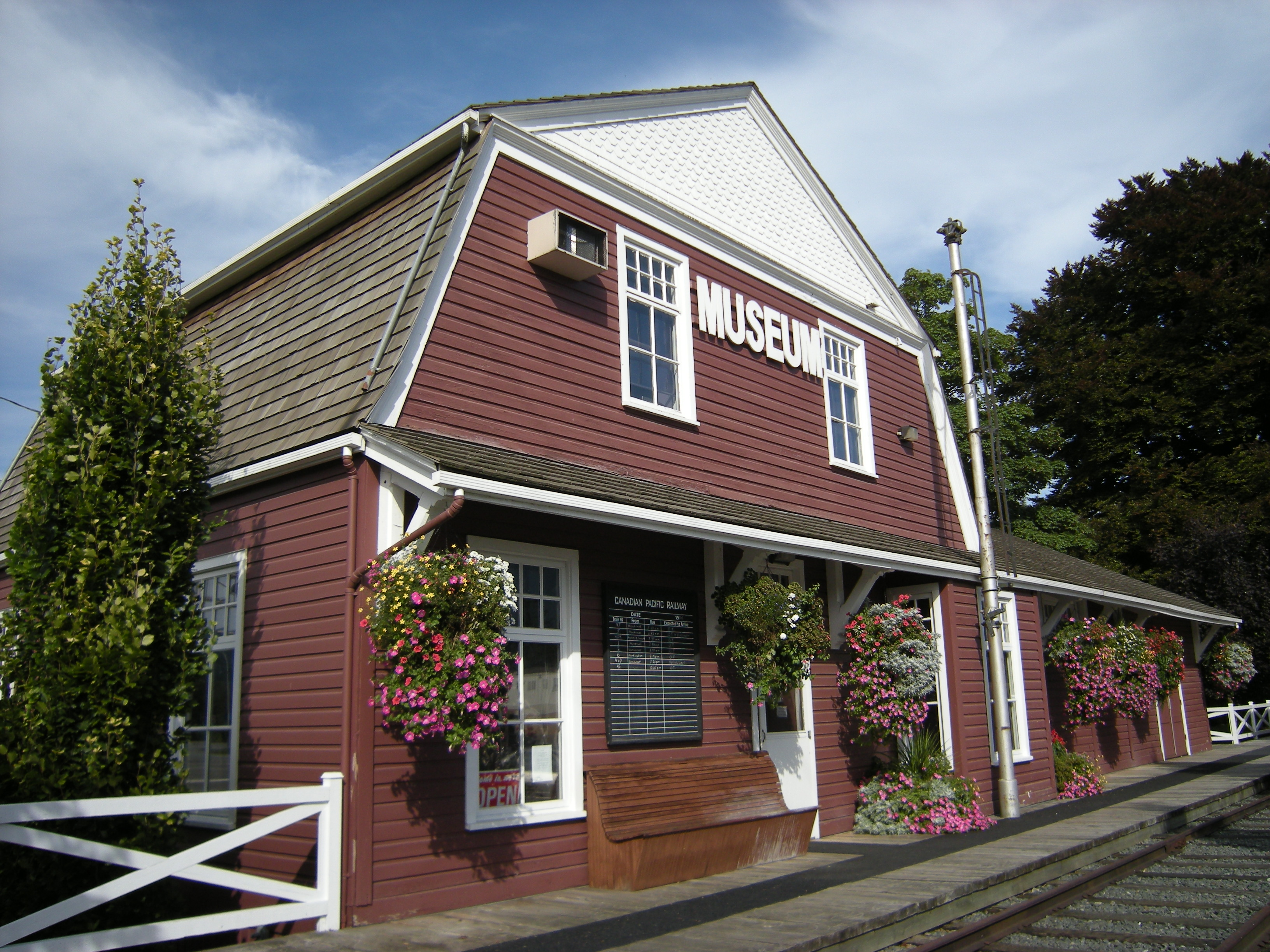 Agassiz-Harrison Museum, Agassiz, British Columbia. The museum has artifacts of Agassiz, BC and of the nearby Harrison Hot Springs.